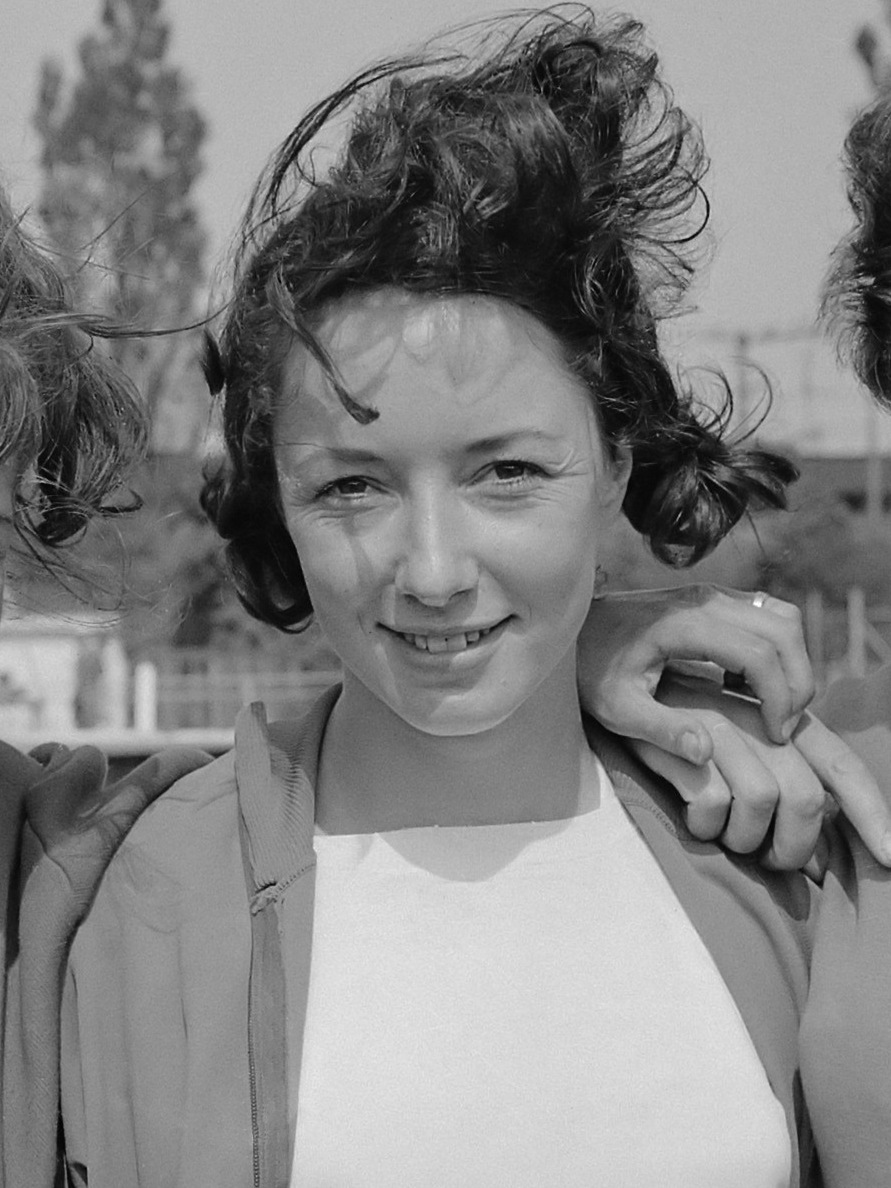 Internationale atletiekwedstrijden, de 400 meter dames v.l.n.r. H. van Doorn , midden A. Packer (Engeland) en rechts Gerda Kraan 31 mei 1964